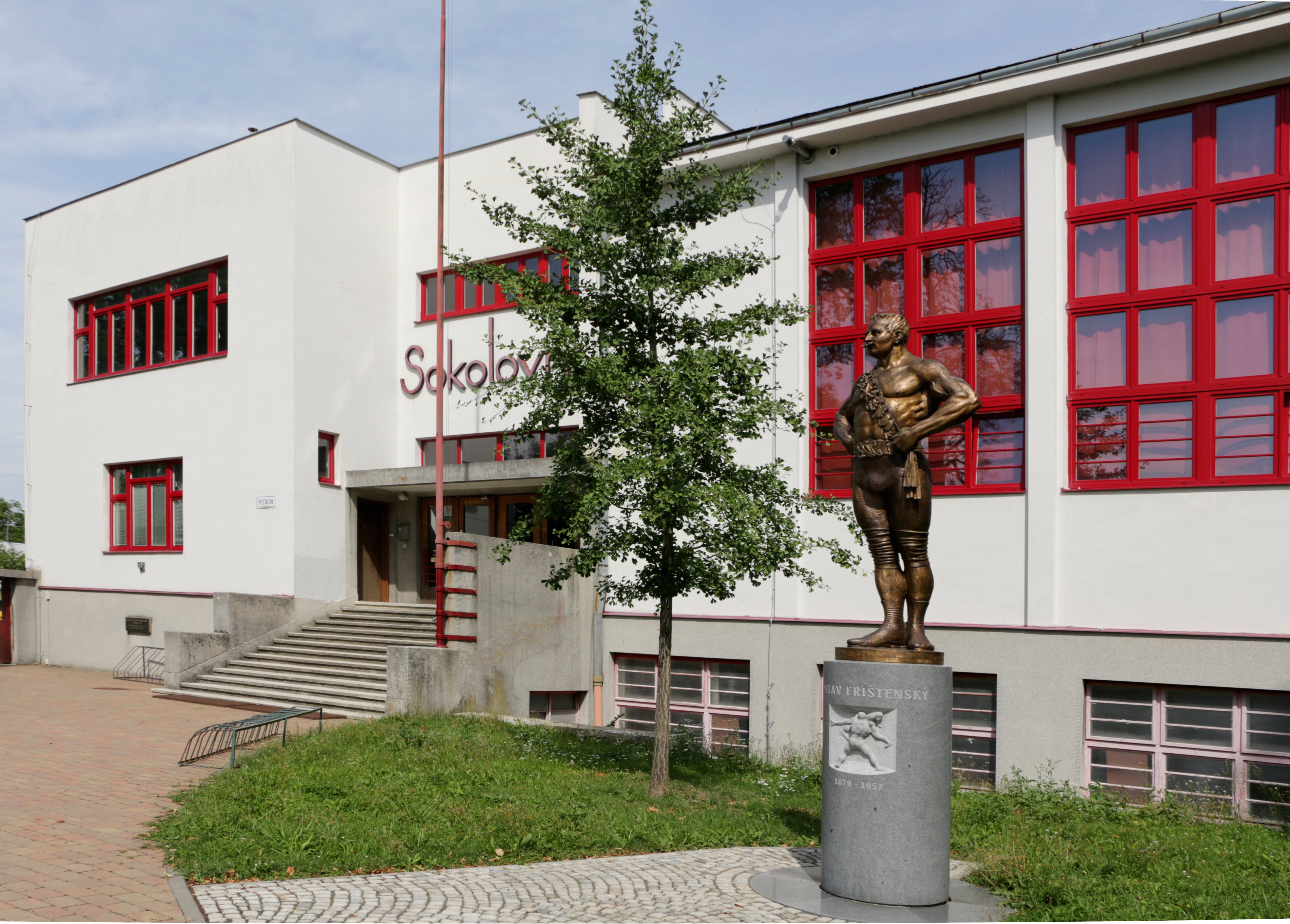 The Sokol House and the statue of Gustav Frištenský in Litovel, the Czech Republic.